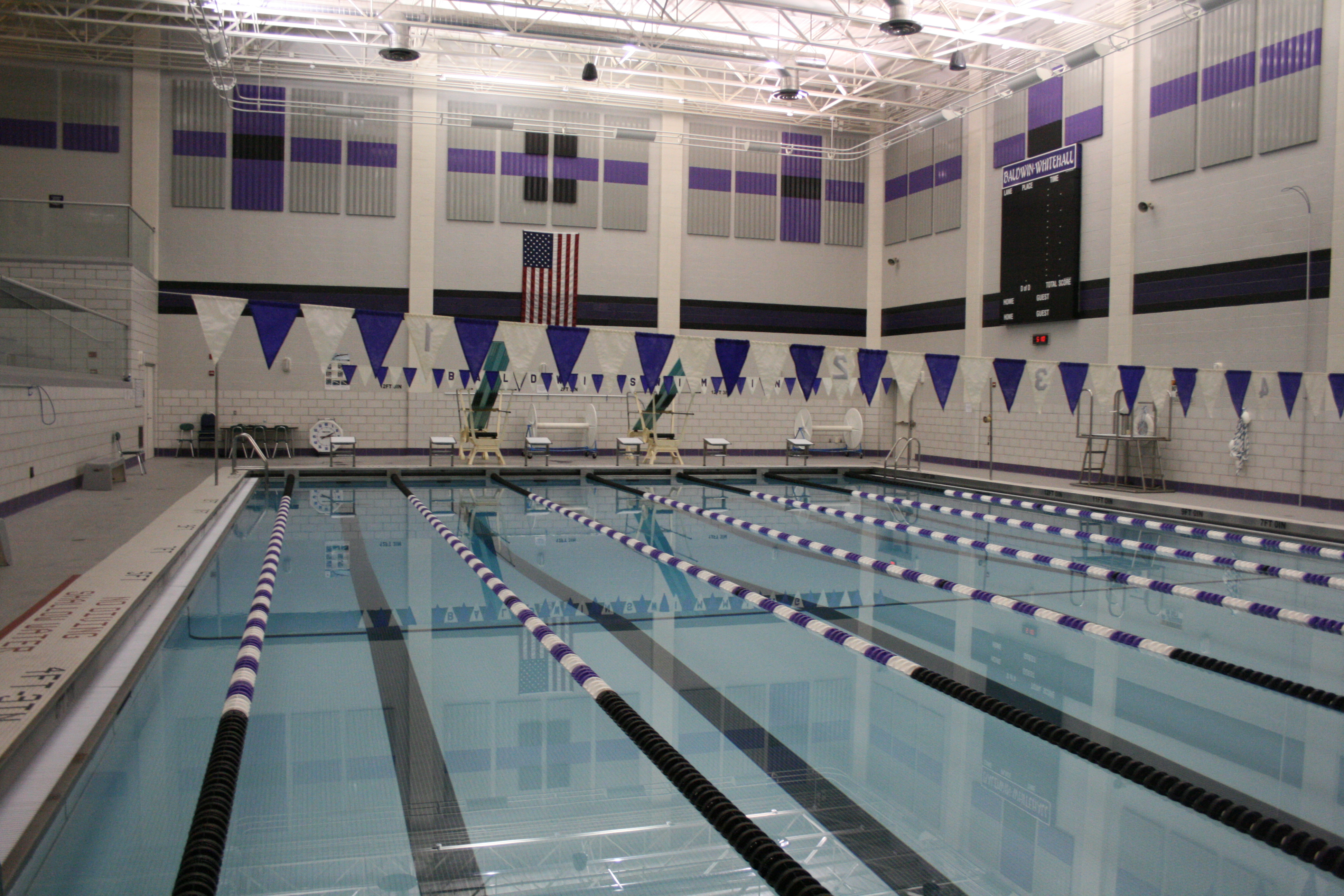 The Baldwin High School Natatorium. Features a 6-lane pool with a 12ft-deep diving well, two diving boards, sound-proof padding, a large timer and clock system, and a seating area with two upper viewing decks.